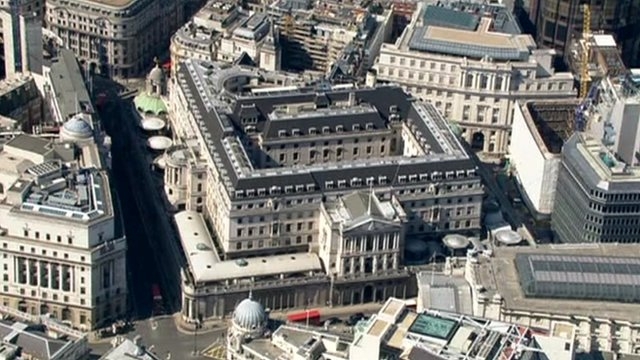 Bank of England headquarters, London.